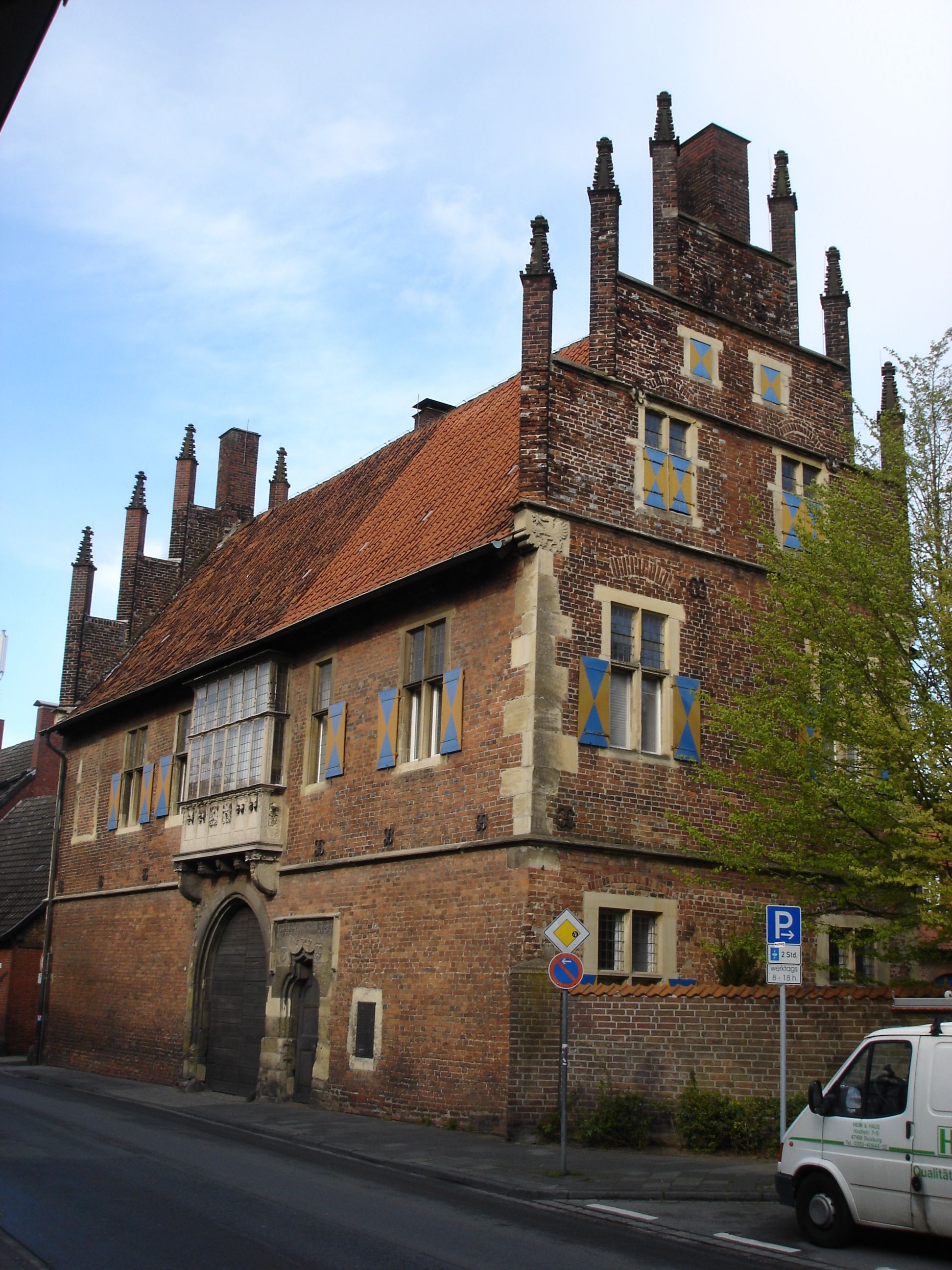 Front view of one of the secondary buildings of the "Drostenhof" in Wolbeck, borough of Münster, Westphalia, Germany